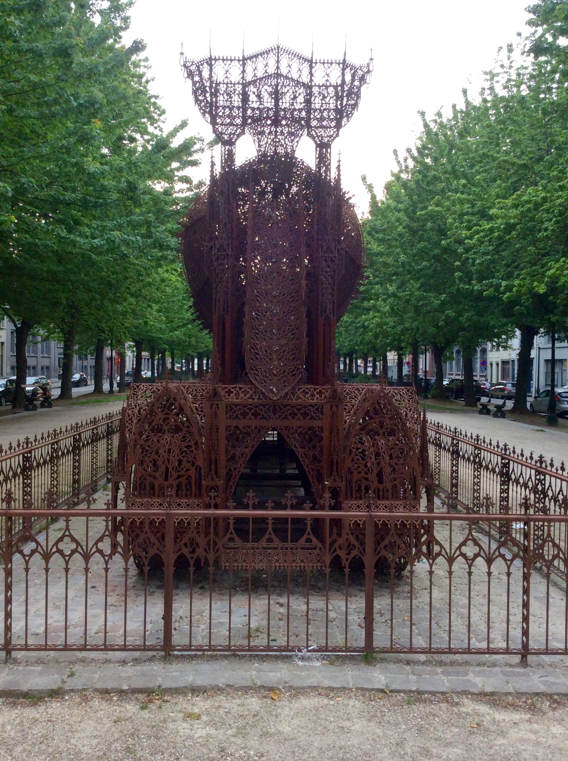 Cement Truck by Wim Delvoye, Hooikaai/Quai au Foin Brussels